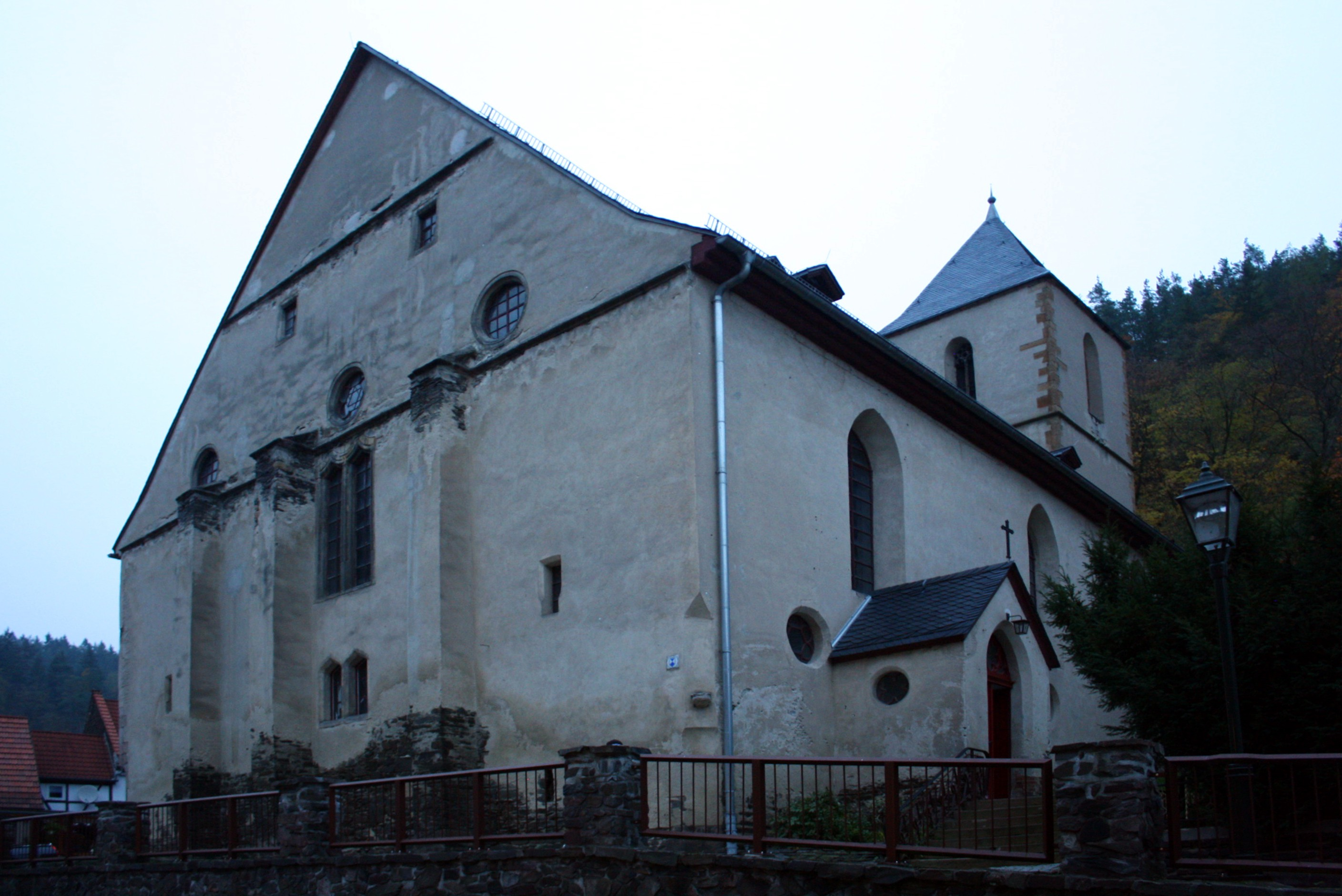 Church in Ziegenrück near Pößneck/Thuringia